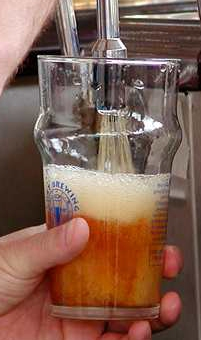 Cropped version of SwanNeck.jpg (from Public Domain image: to show a close up of a Sparkler on a Beer engine.